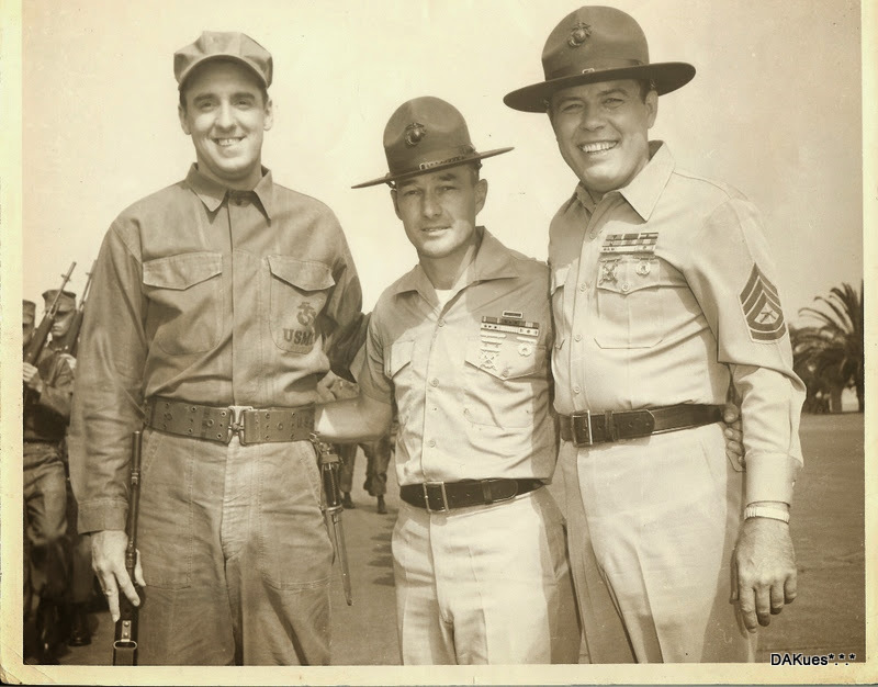 On site of the filming of Gomer Pyle, USMC at the U.S. Marine Corps Recruit Depot (MCRD) San Diego, California 92140 with Gomer Pyle (Jim Nabors), USMC Technical Advisor (Senior Drill Instructor Edwin J. Kues), GySgt Carter (Frank Sutton)